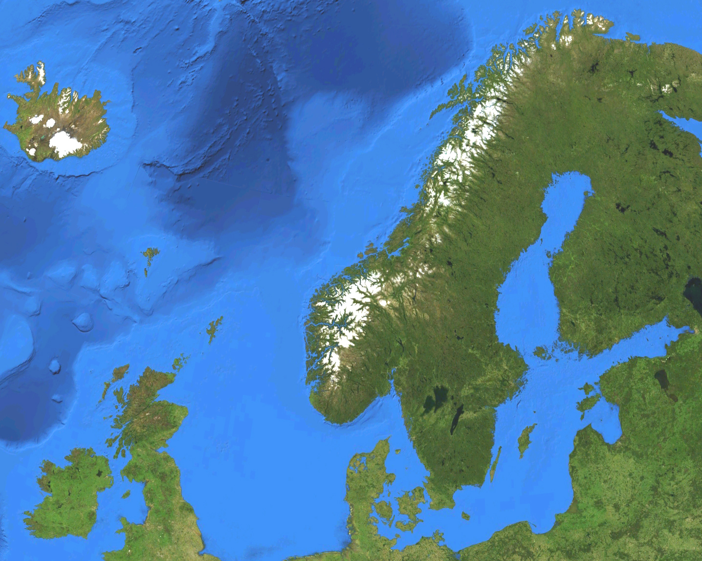 Satellite map of European part of the Nordic countries, except for Jan Mayen and Svalbard. Terrain and ocean topography.